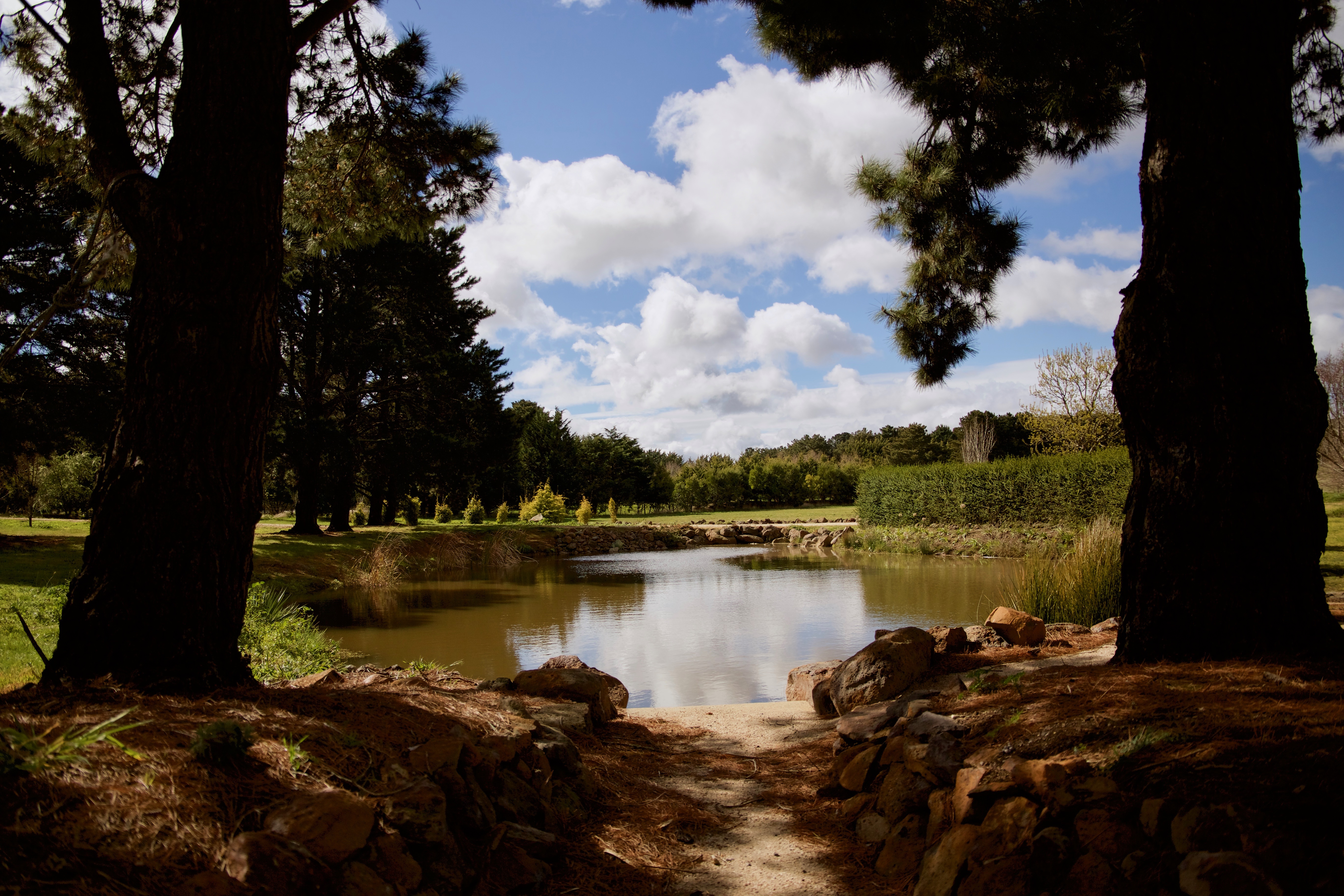 Typical Gisborne South scenery